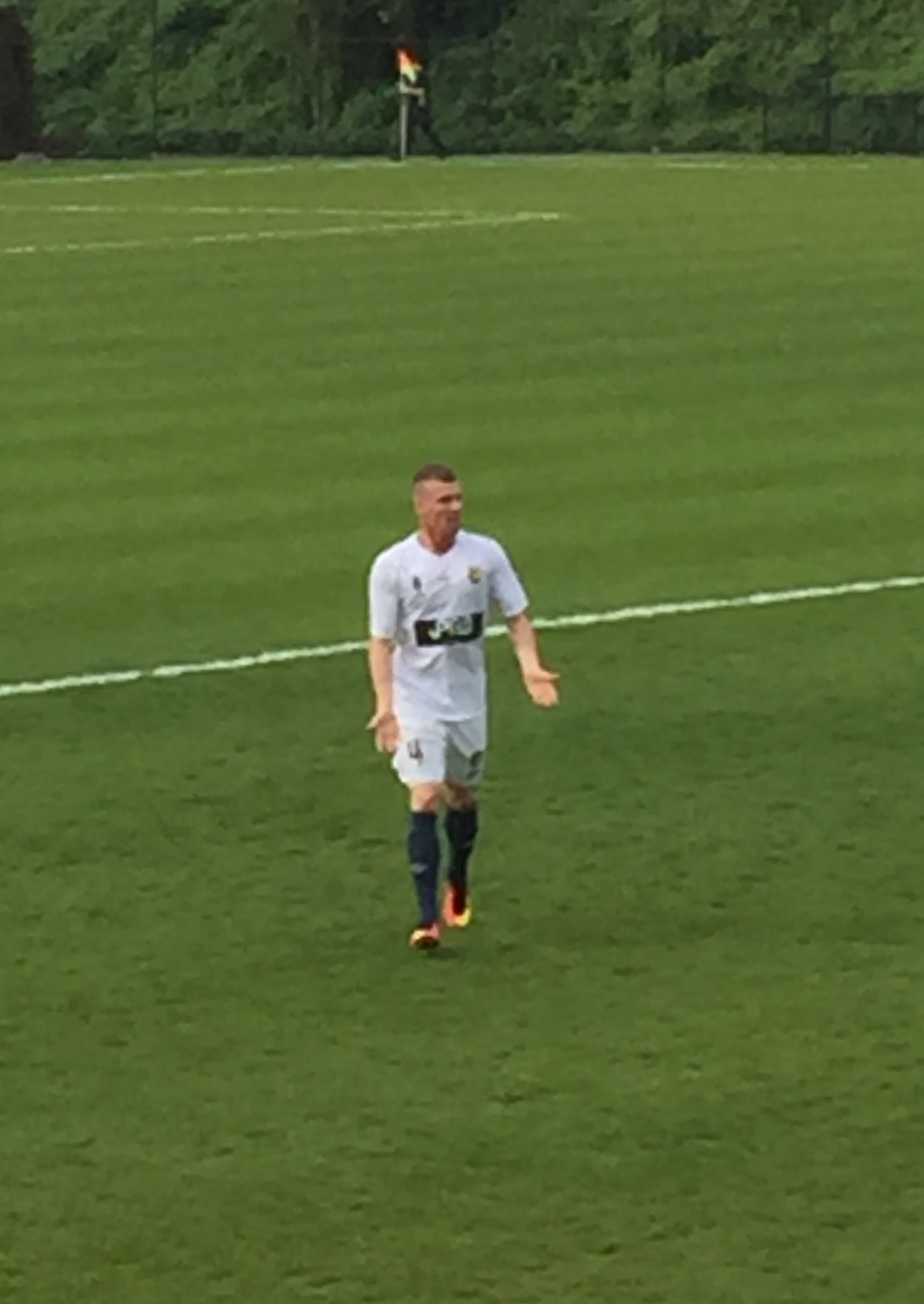 Jacob Poscoliero playing for Central Coast Mariners against Wellington Phoenix at Knox Grammar School on 17 September 2016